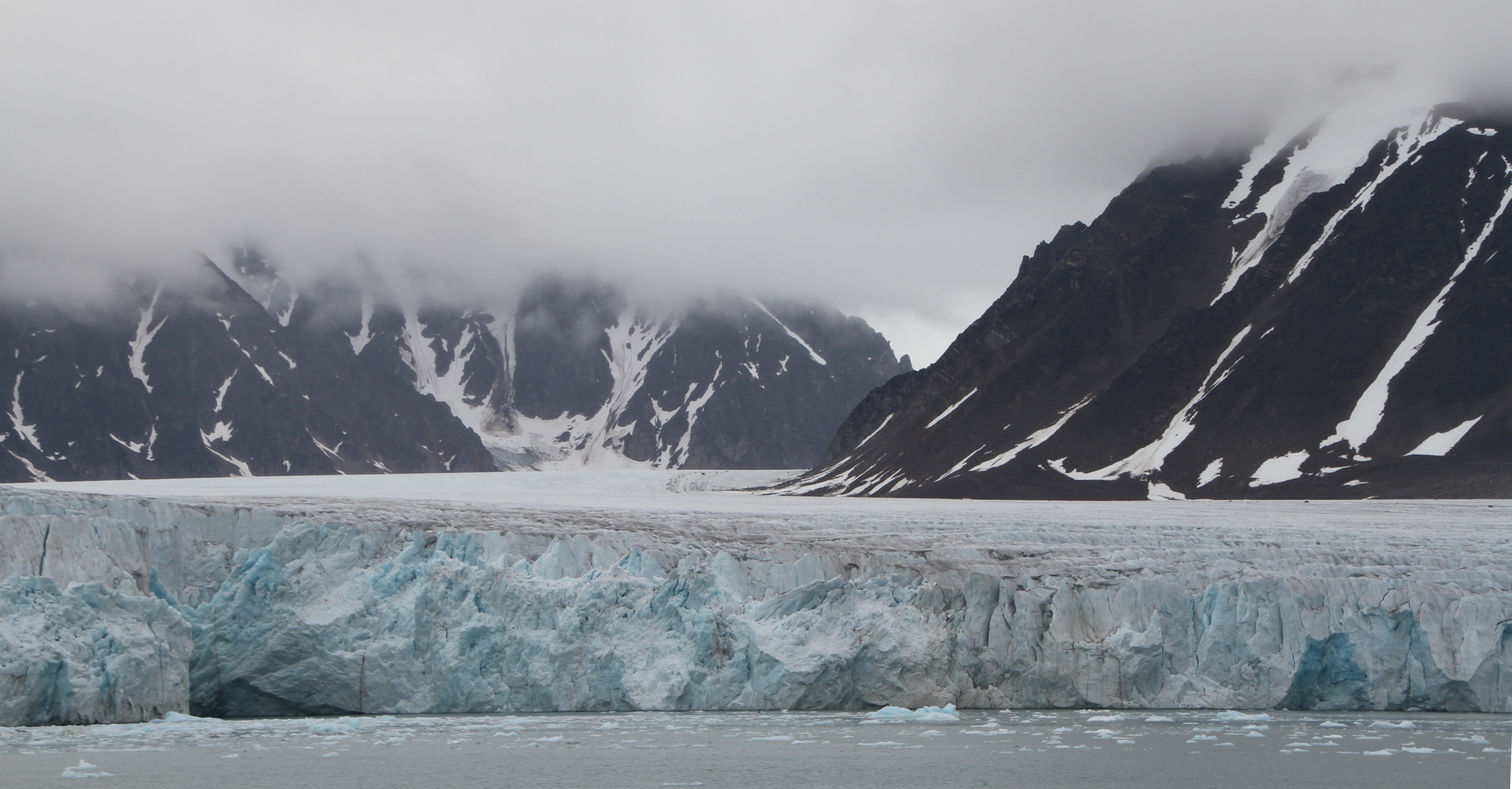 Photo from the inner Lilliehöök Fjord, which is wholly dominated by the Lilliehöök glacier and sub-glaciers. Albert I Land, Spitsbergen.